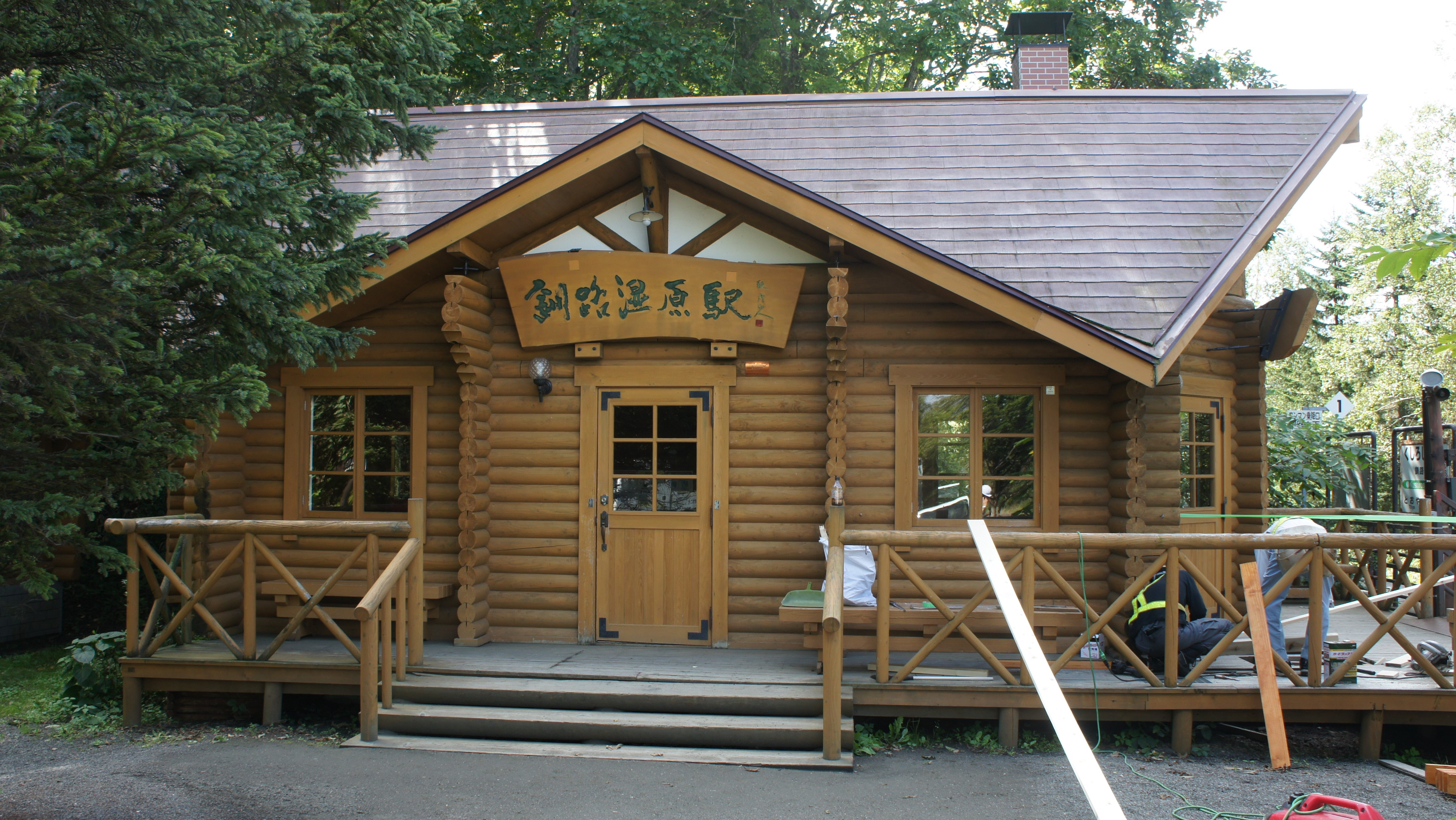 Station building of JR Senmo-Main-Line Kushiro-Shitsugen Station